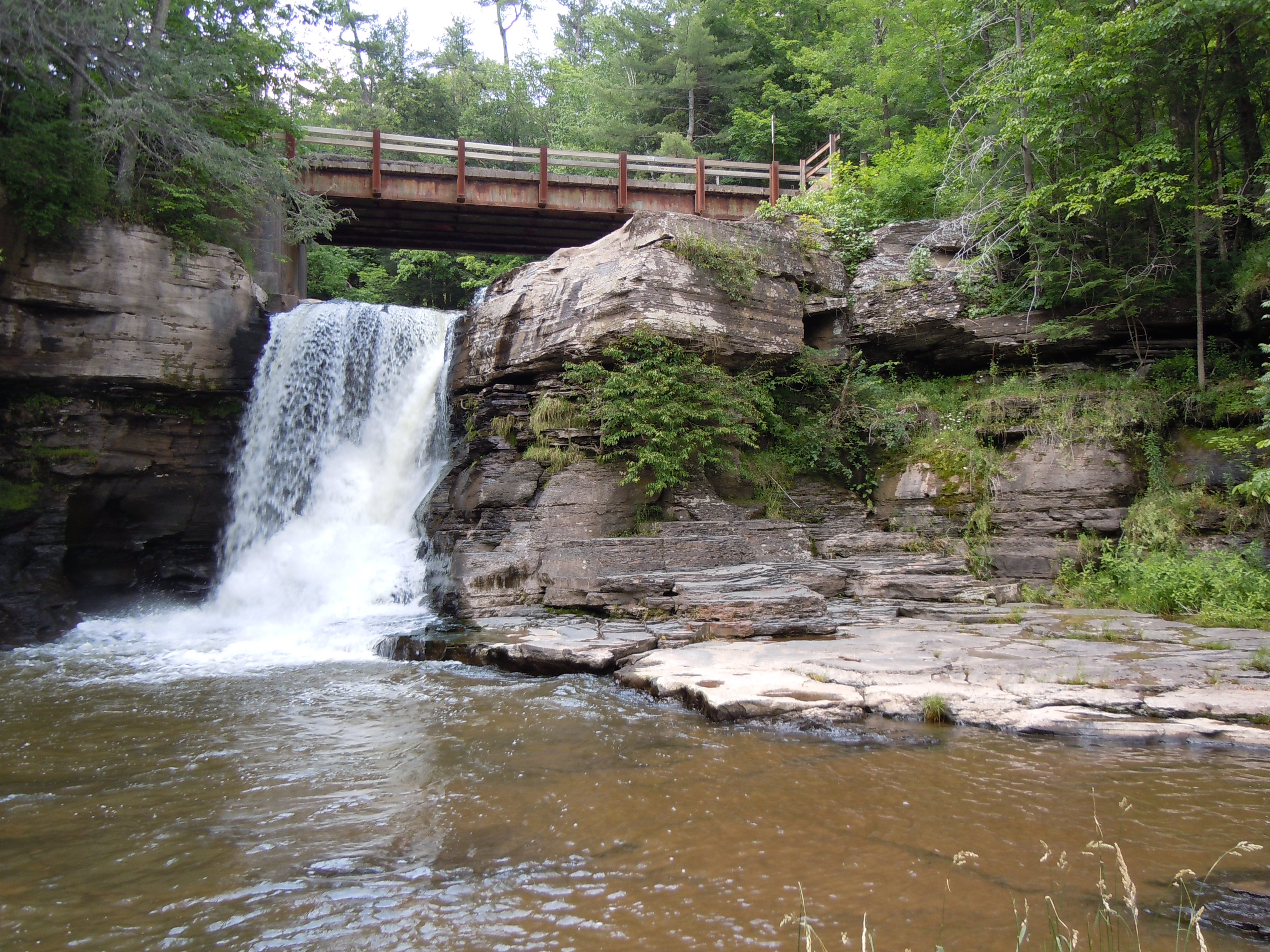 Hardenburgh Falls are in Delaware County on the Schoharie Reservoir